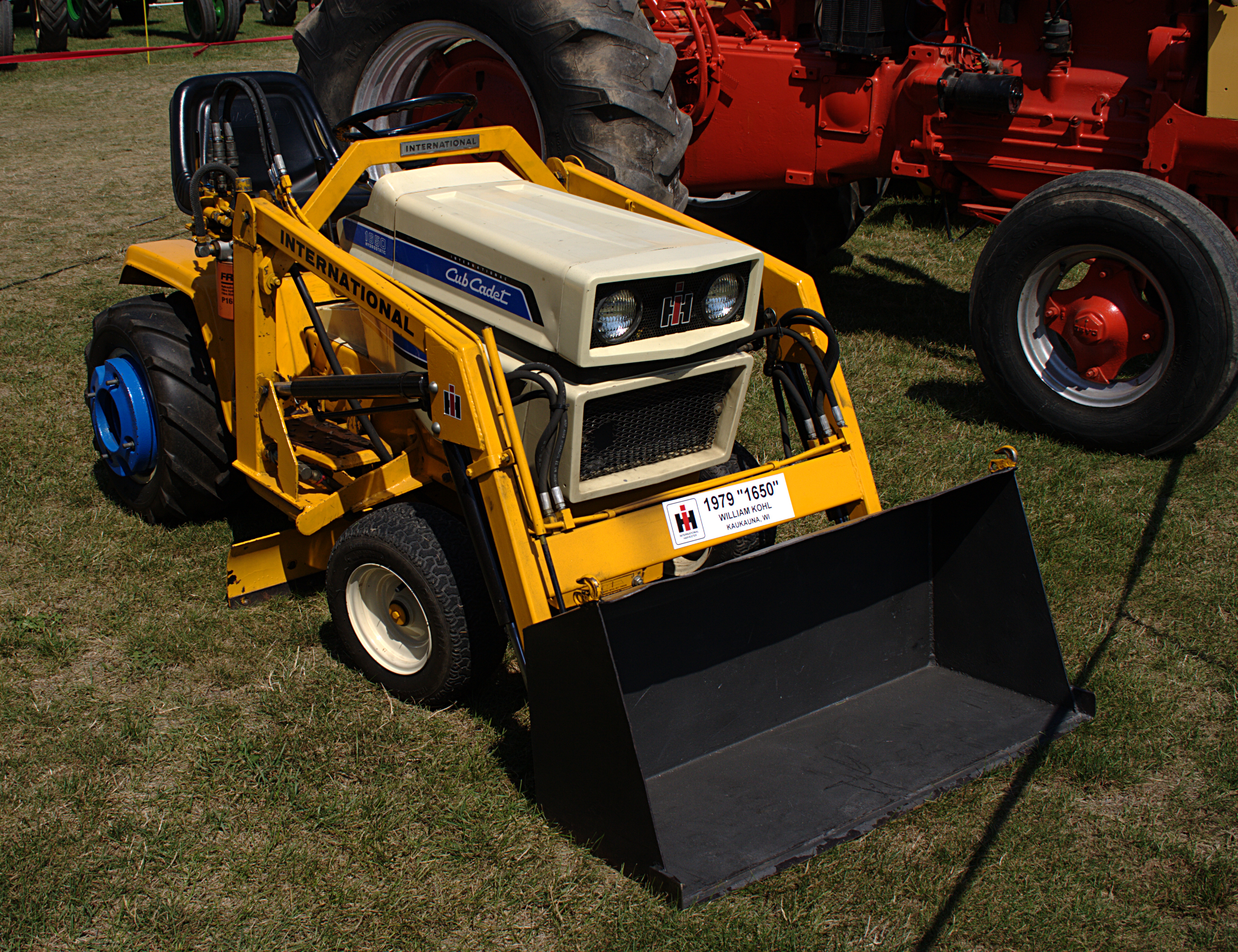 An IH Cub Cadet 1650 compact tractor (built in 1979) with a front loader attachment; note the blue wheel weights at the rear axle